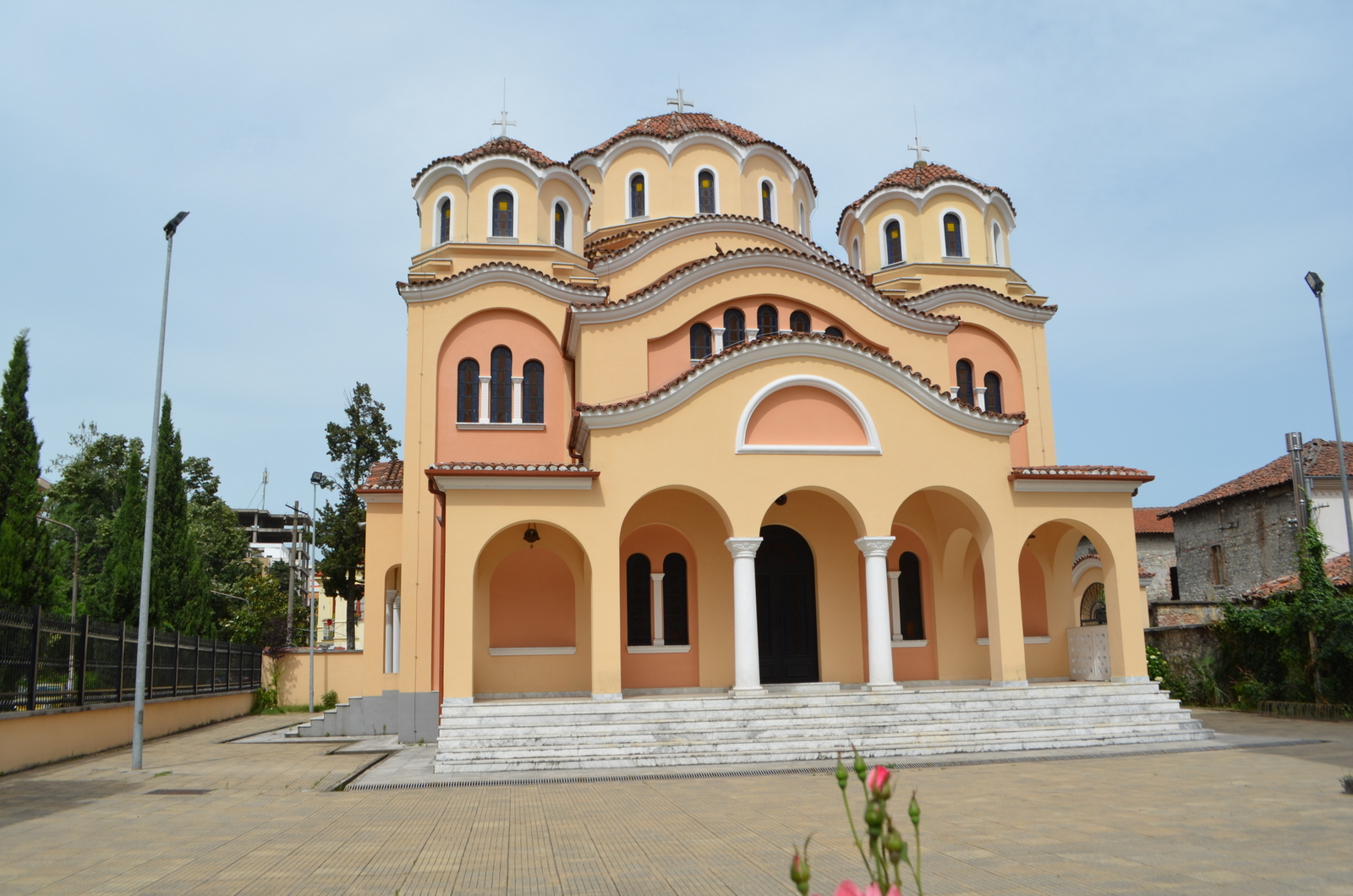 Orthodox church in Shkodra (Skadar), Albania